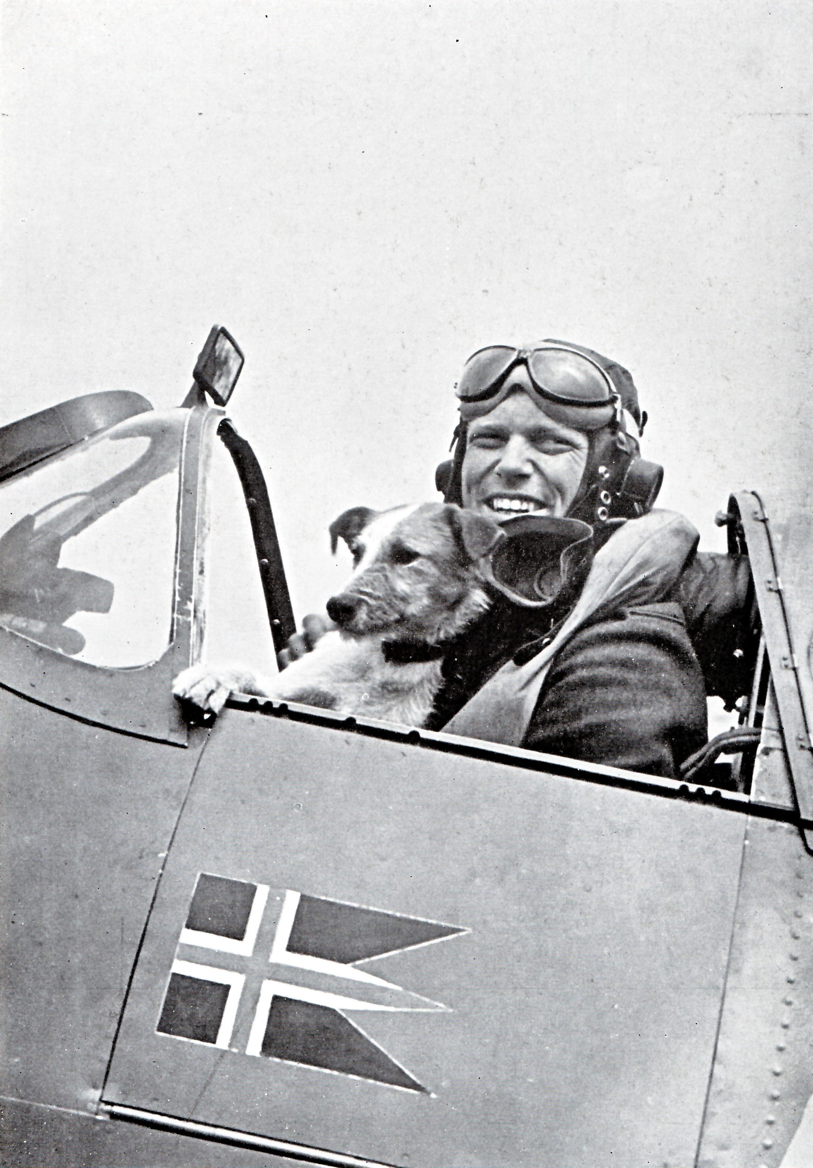 Norwegian pilot Erik Haabjørn with squadron mascot Spit at Catterick in April 1942.